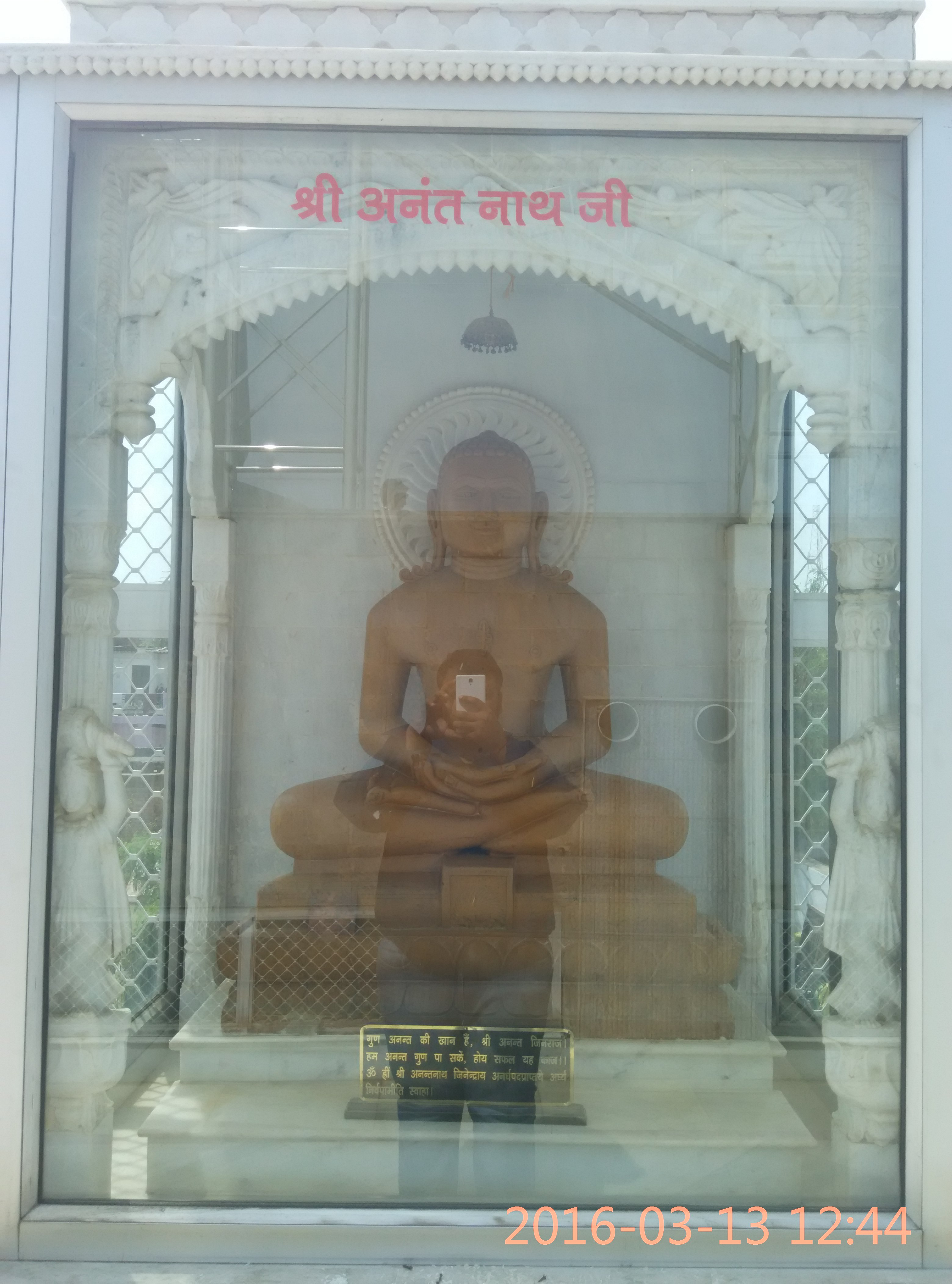 Anantanatha